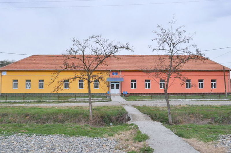 Bara, Timiș county, Romania